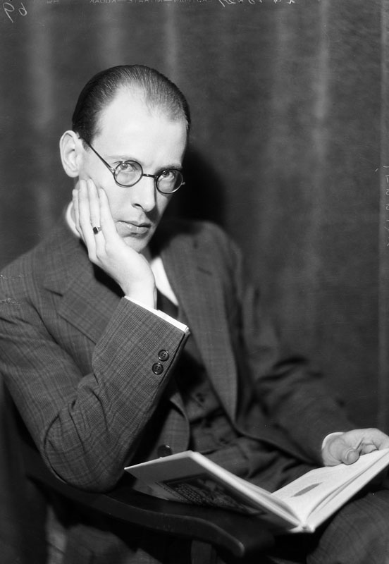 Nils Jerring (1903–1966), between 1925 and 1941.